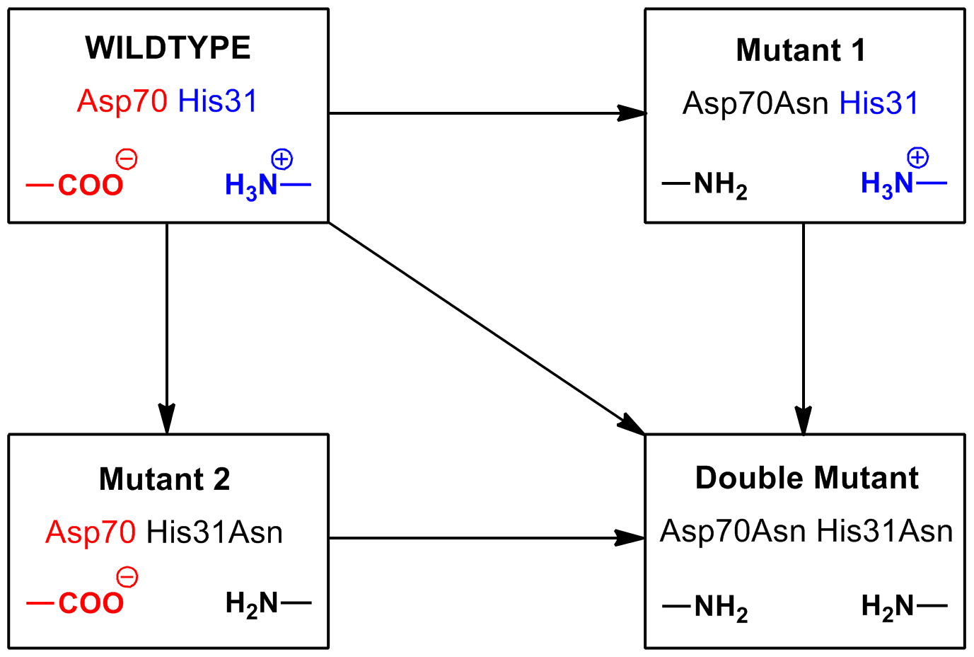 double mutant, T4 lysozyme salt bridge PMID 2337607.